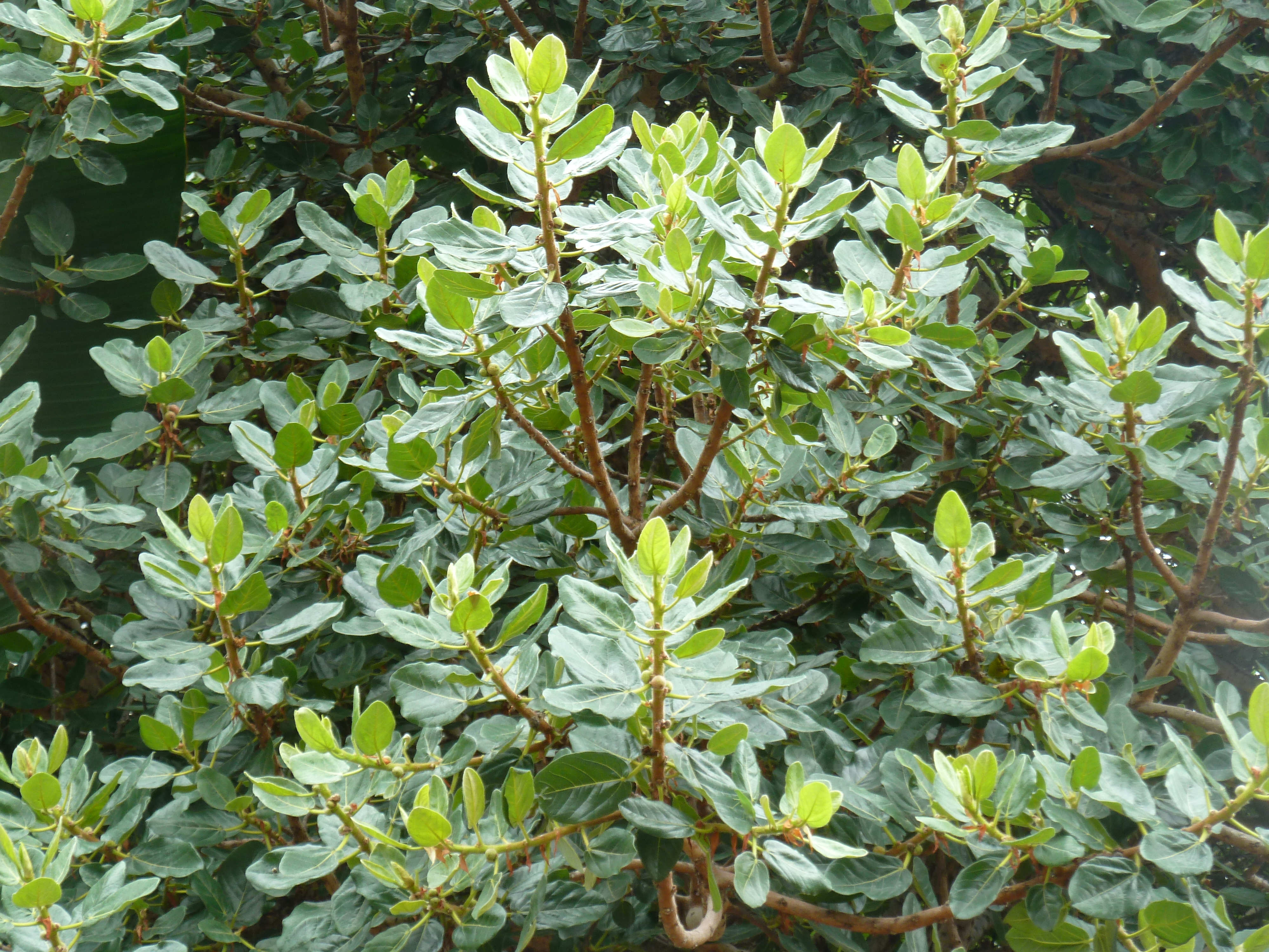 Foliage and fruit of a Mountain fig growing near the Manie van der Schijff Botanical Garden at the University of Pretoria, South Africa